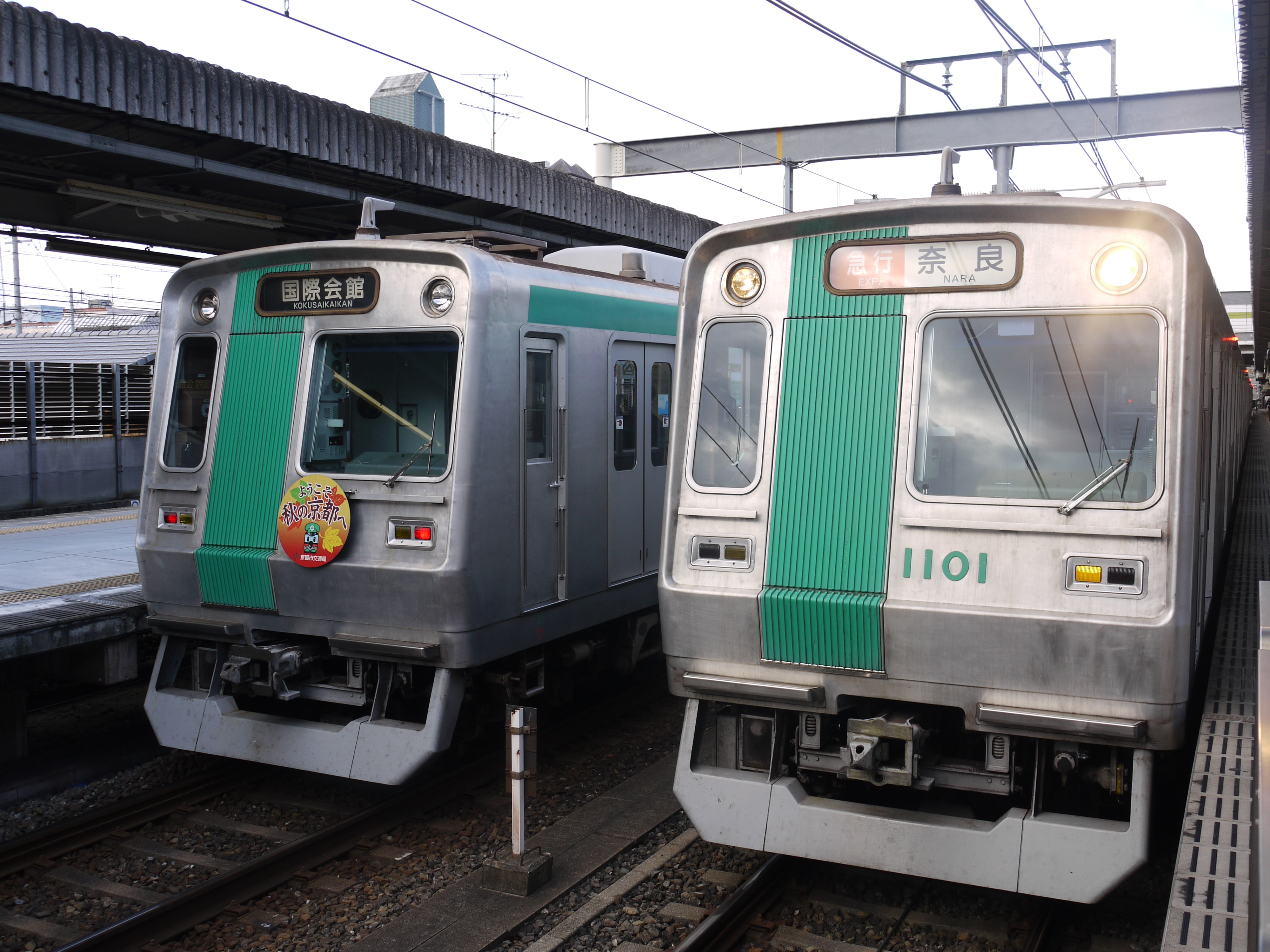 Kyoto subway 1101 and 1105